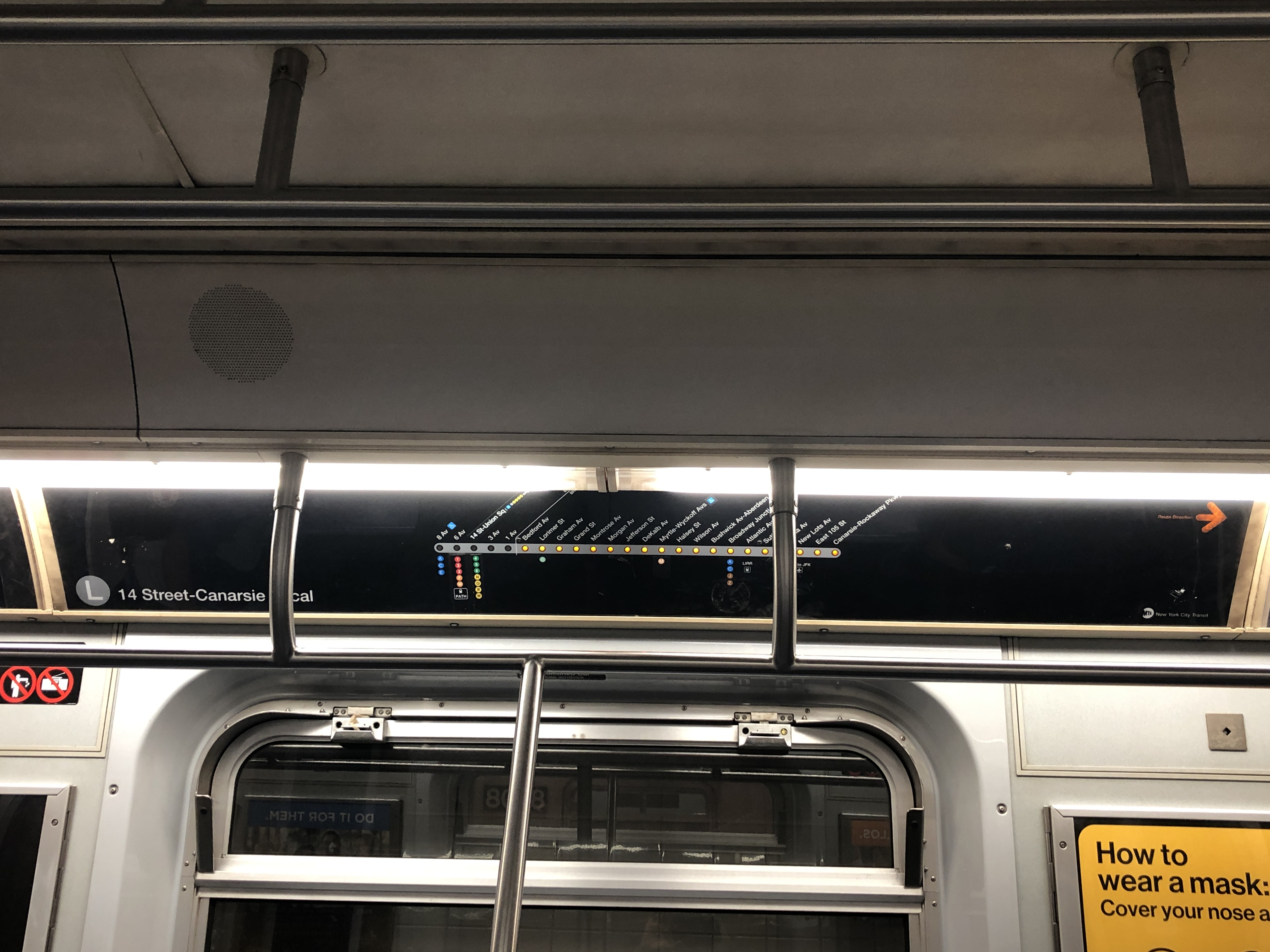 The interior map of the R143 New York City Subway car at Rockaway Pkwy bound train